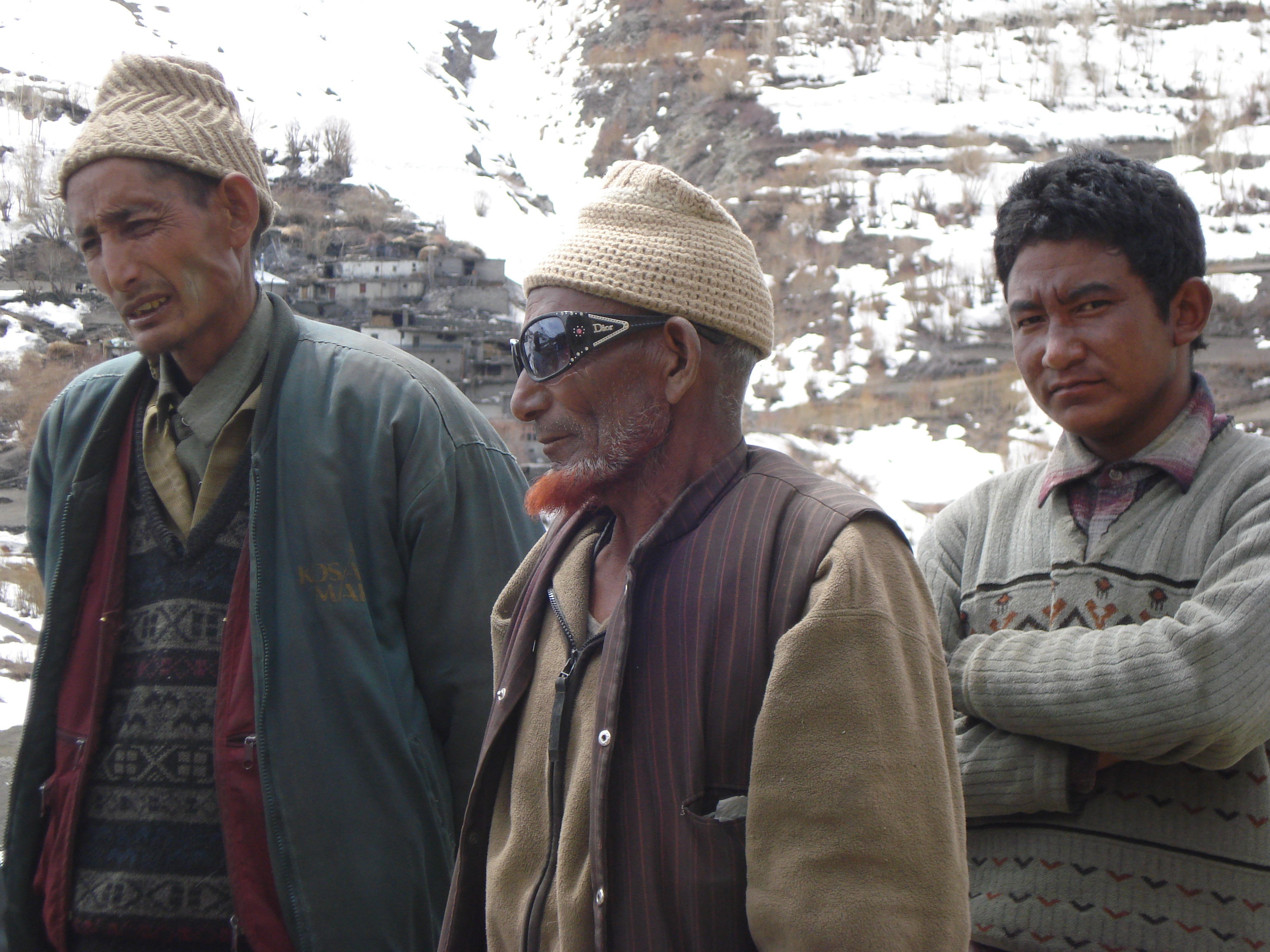 Members of a farming family near Kargil town.